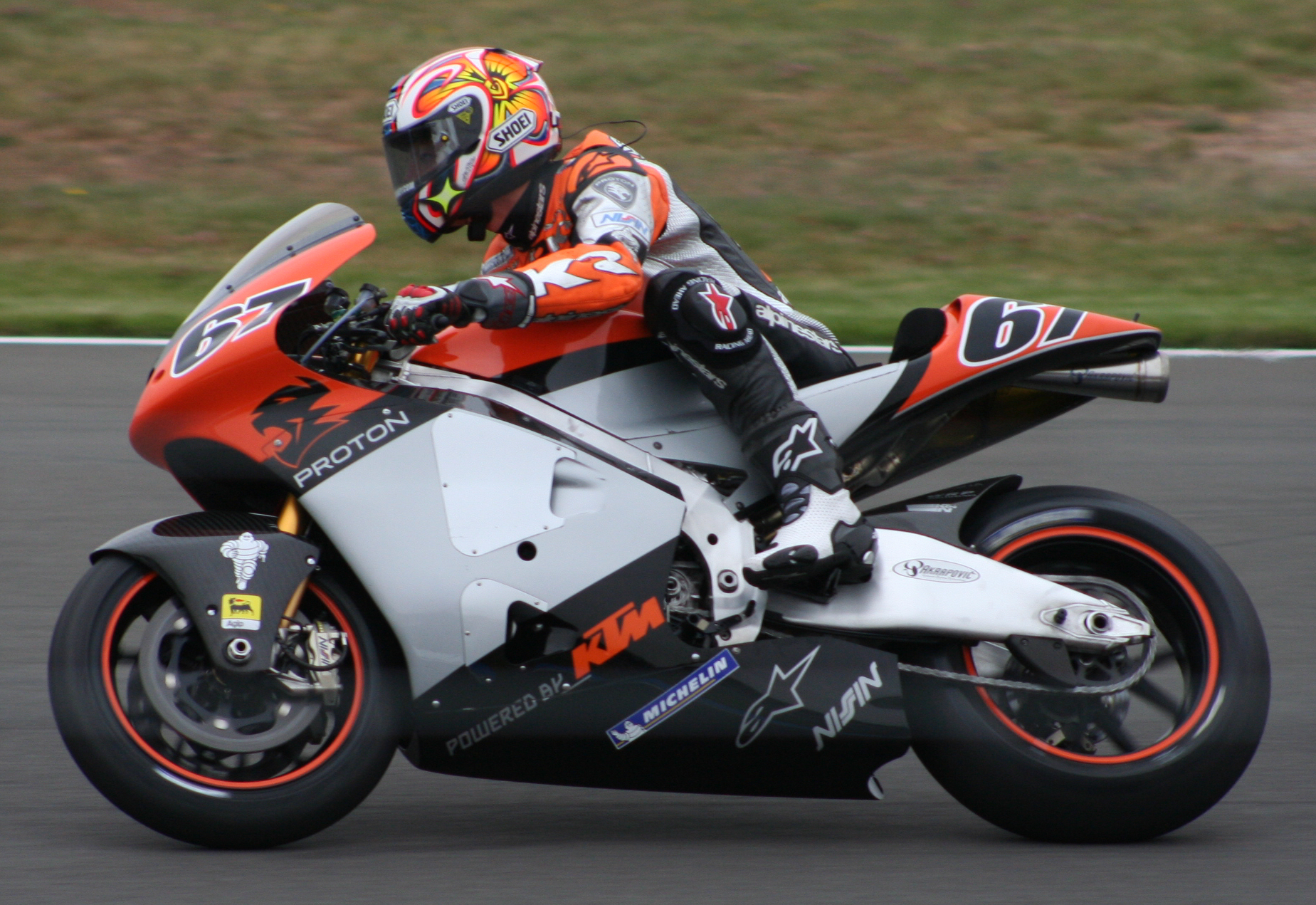 Shane Byrne on Proton KTM 2005 Donington